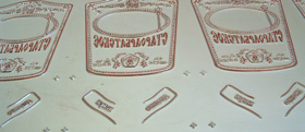 hot-stamping dies